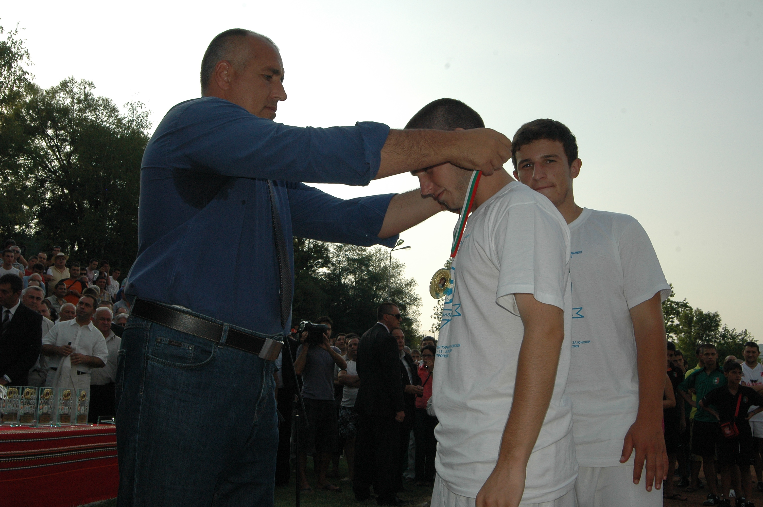 Stiliyan Vanev